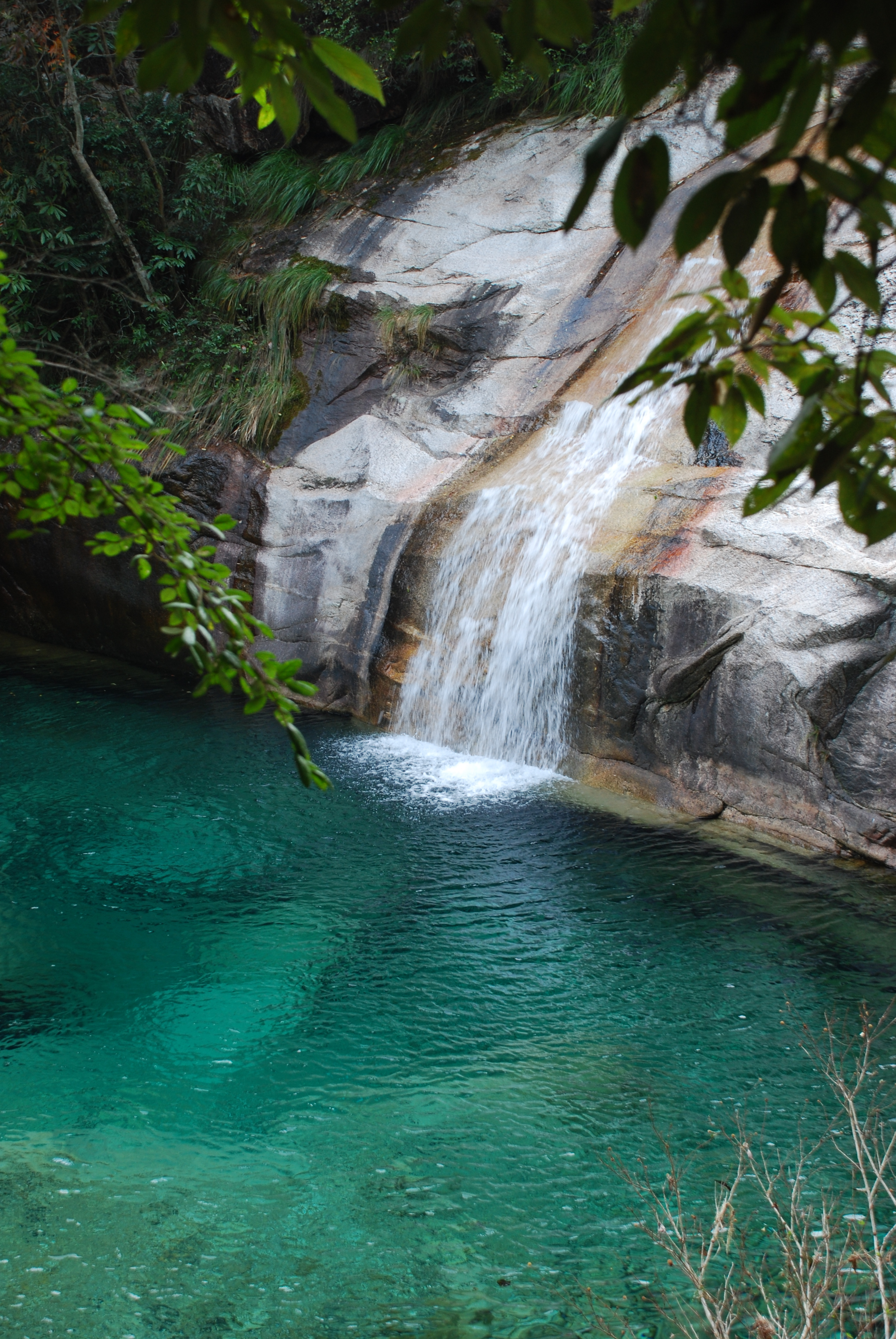 Location for one scene of the movie Tiger and Dragon